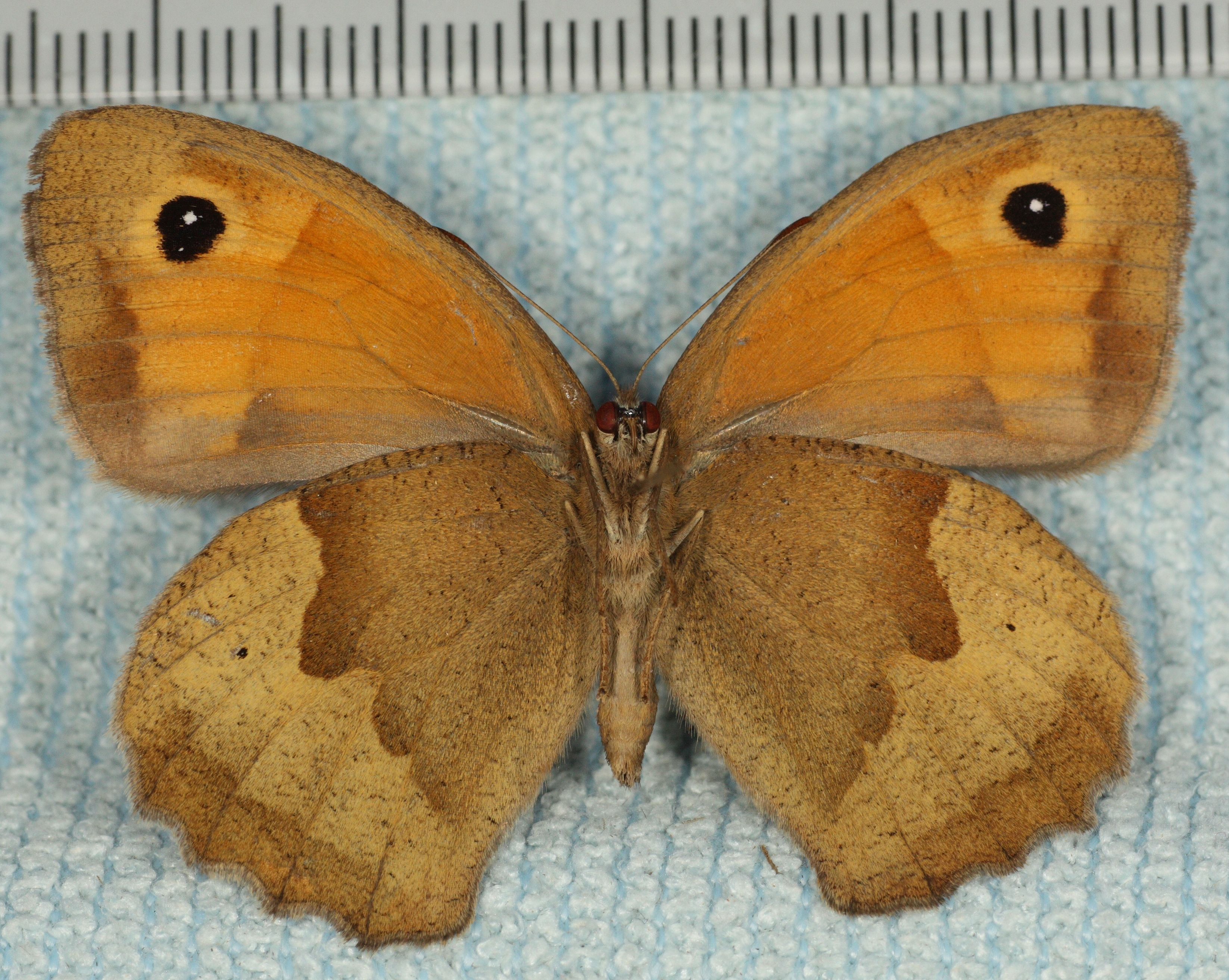 Female Meadow Brown Maniola jurtina